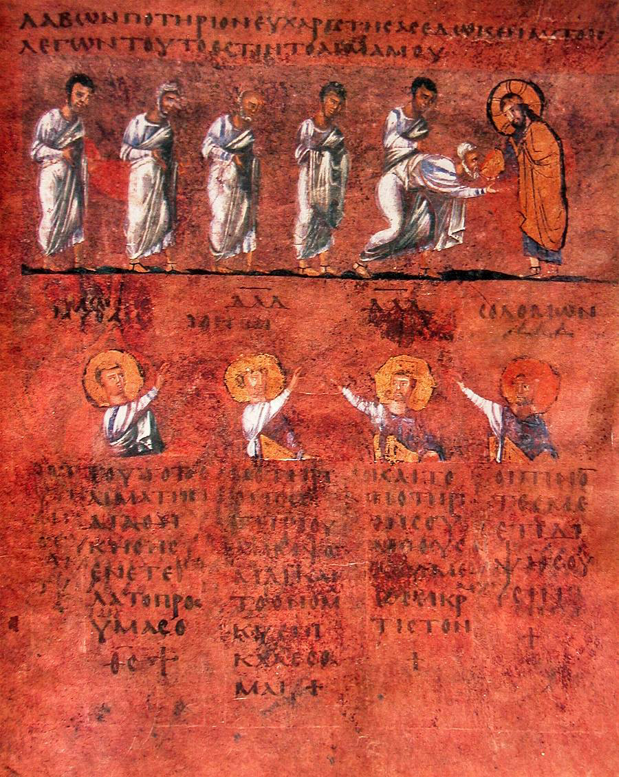 The Rossano Gospels (Cathedral of Rossano, Calabria, Italy, Archepiscopal Treasury, s.n.) is a 6th century Byzantine Gospel Book and is believed to be the oldest surviving illustrated New Testament manuscript.